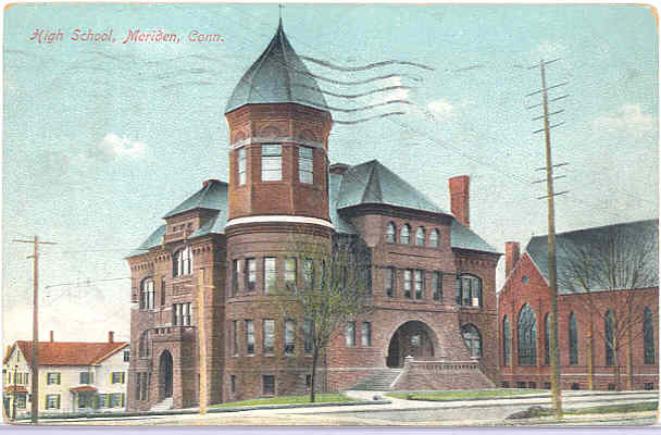 Postcard: High school, Meriden, Connecticut, 1909 postmark